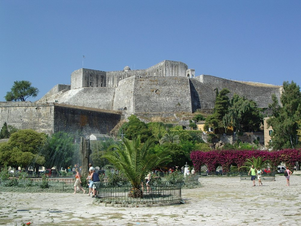 Description : Nouvelle citadelle, Corfu, Greece. View from north-east. Author : Rémi Stosskopf Date : 22 July 2006